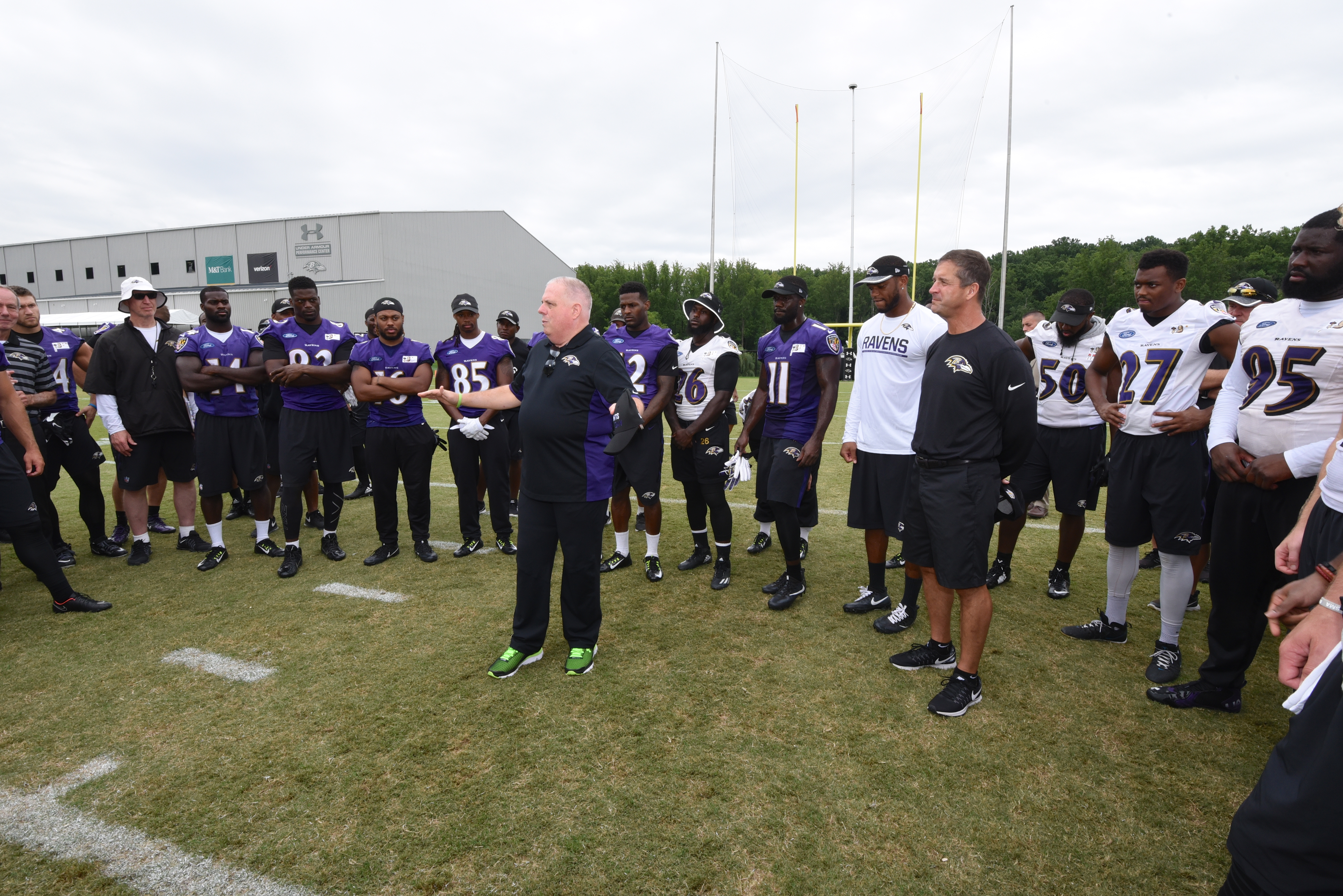 Governor and Lt. Governor Visit Ravens Training Camp by Joe Andrucyk at 1 Winning Dr. Owings Mills MD 21117